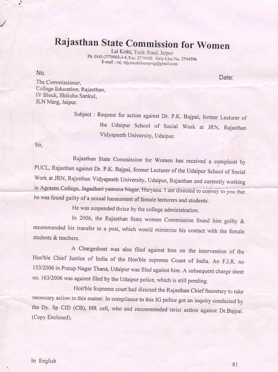 Rajasthan State Commission for Women. Lal Kothi, Tonk Road, Jaipur. . Ph: 0141-2779002--3--4